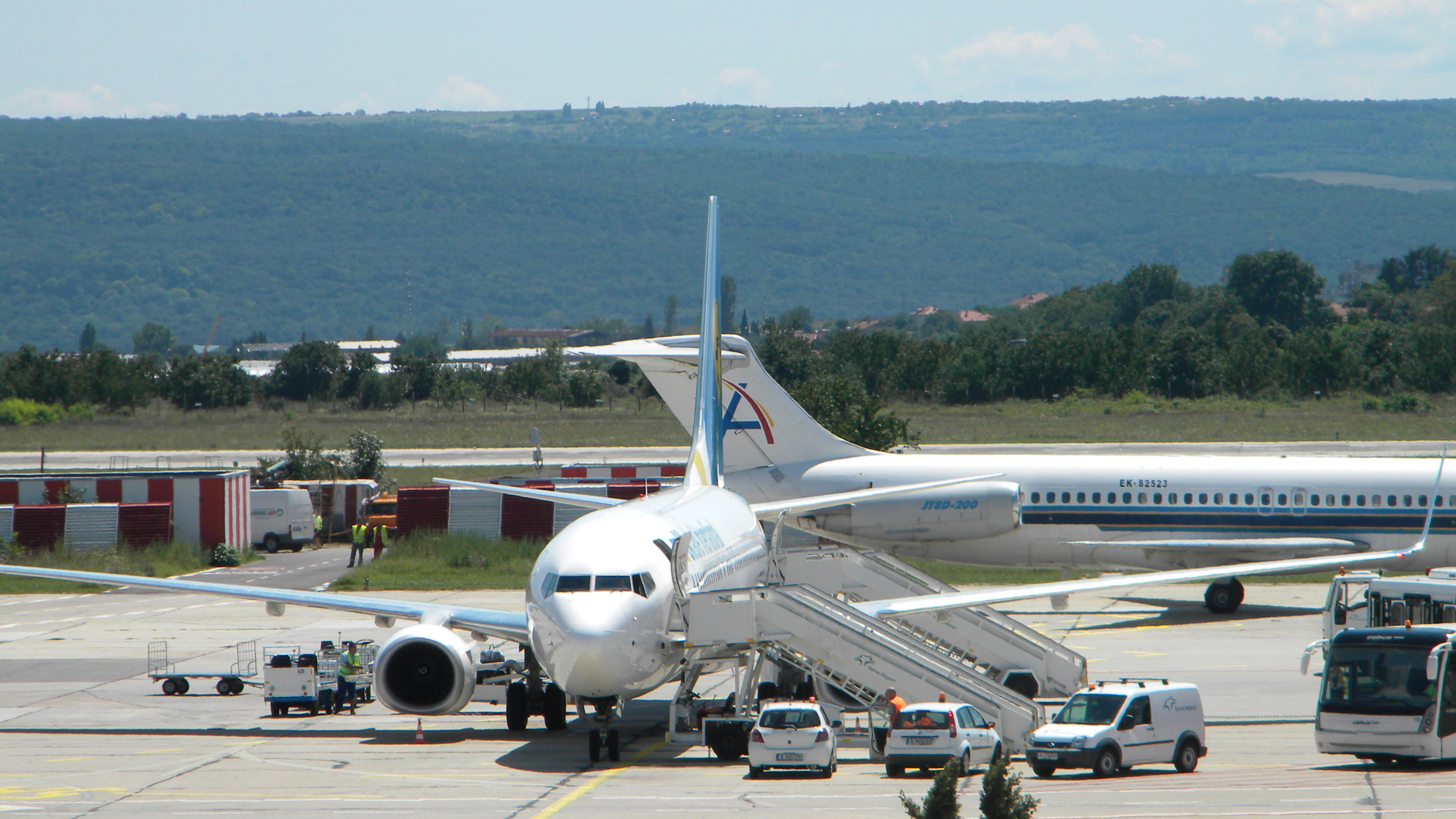 Ukraine International Airlines Boeing 737 at Varna Airport